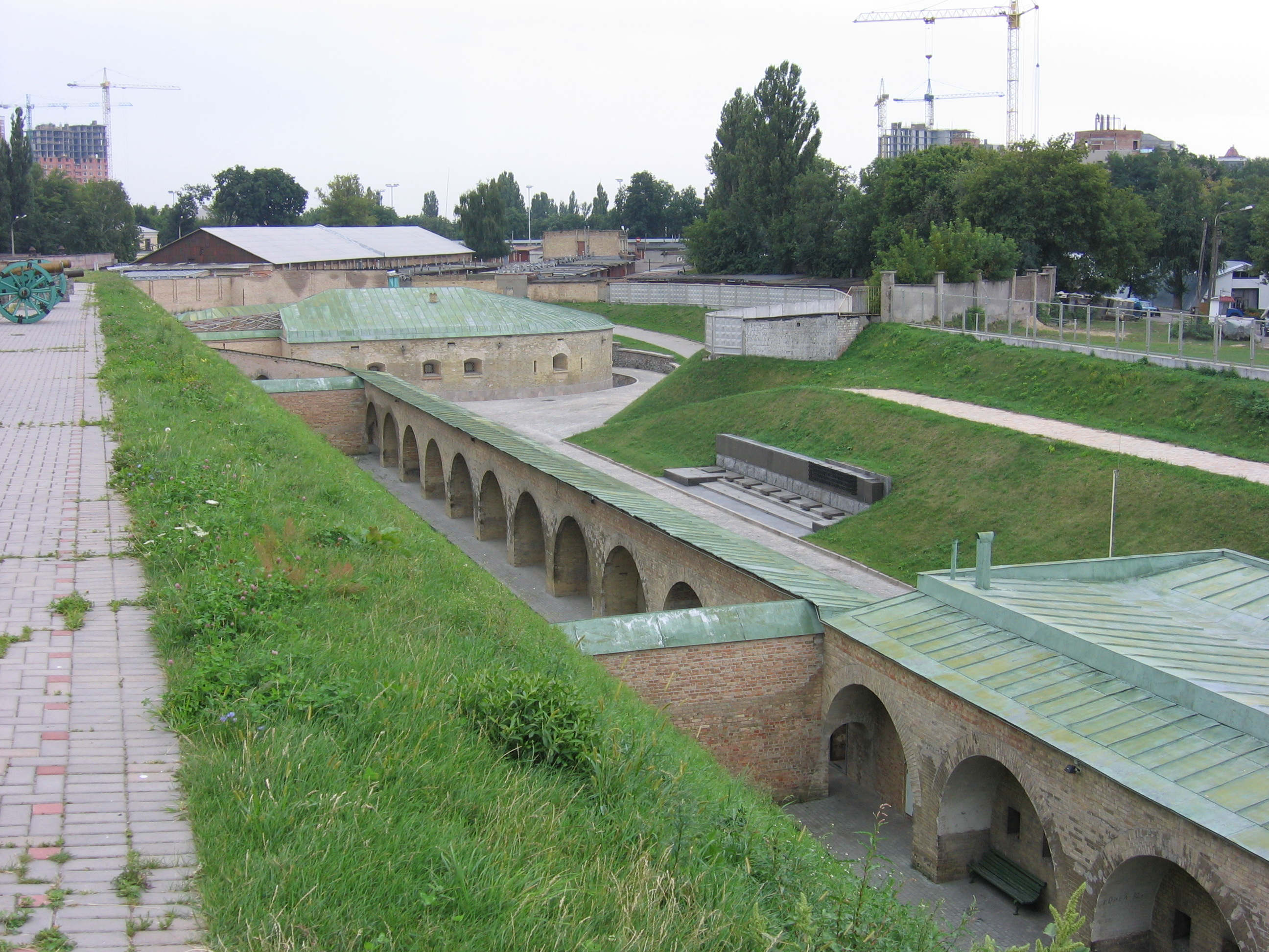 Kiev fortress in Kiev, Ukraine